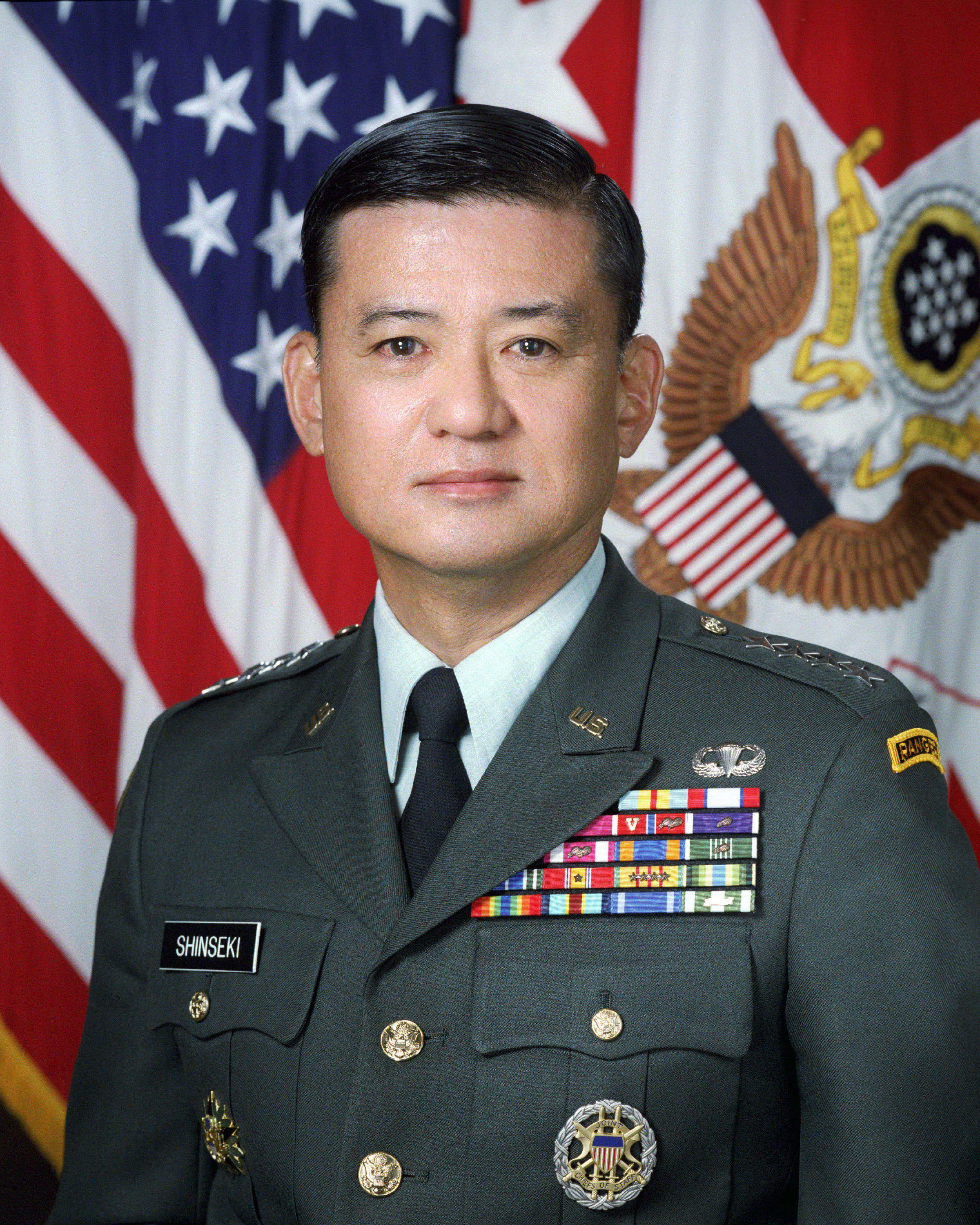 Eric K. Shinseki, Official portrait as Chief of Staff of the Army